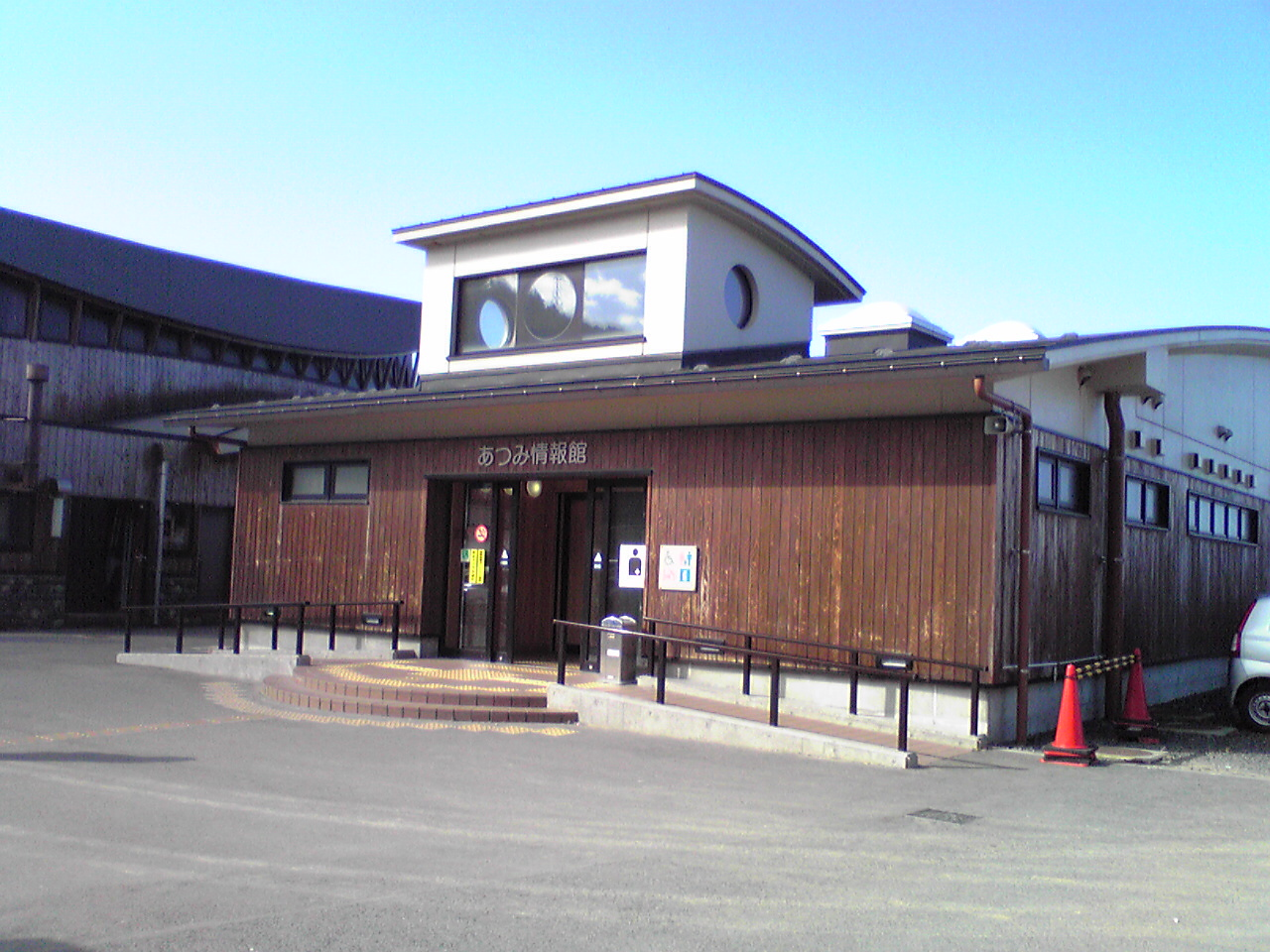 Information Center at Michinoeki Atsumi in Tsuruoka City, Yamagata Prefecture, Japan